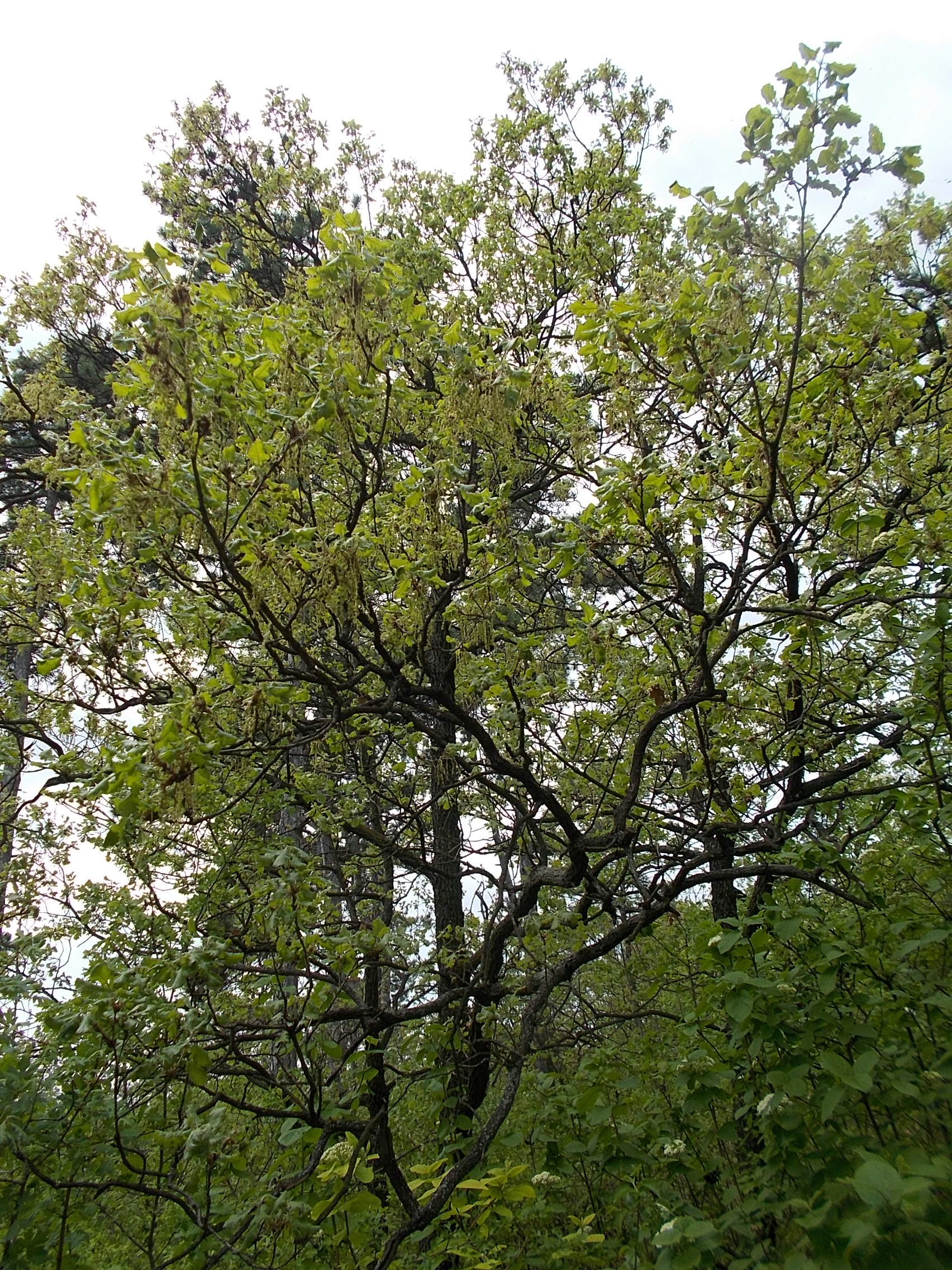 Viburnum lantana. Tűzkő Hill Park Forest trail. - close to Merengő Street Budaörs, Pest County.